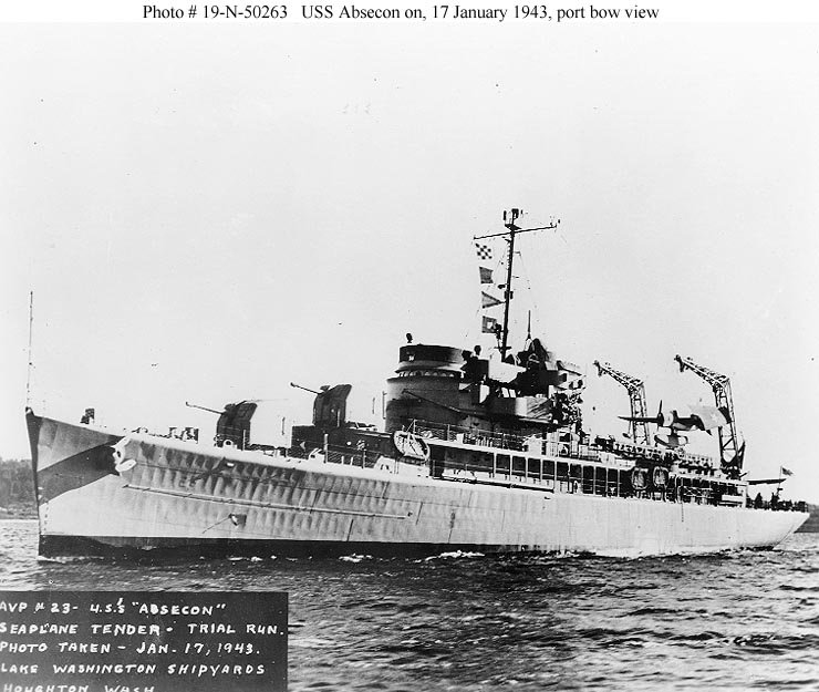 United States Navy catapult training ship USS Absecon (AVP-23) off Houghton, Washington, on 17 January 1943, six days before commissioning, with a Curtiss SO3C Seamew floatplane on her catapult